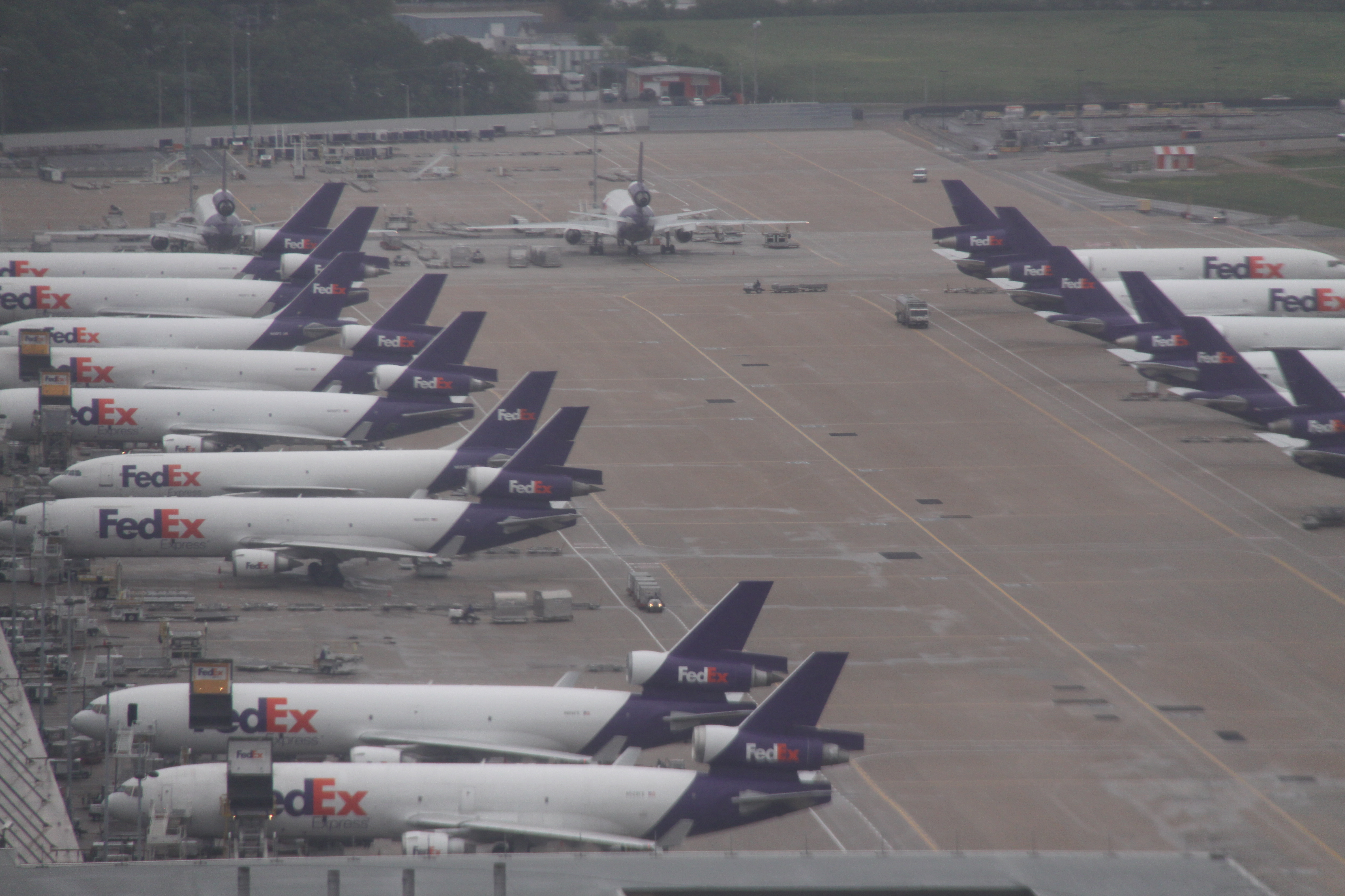 At Memphis International Airport, TN